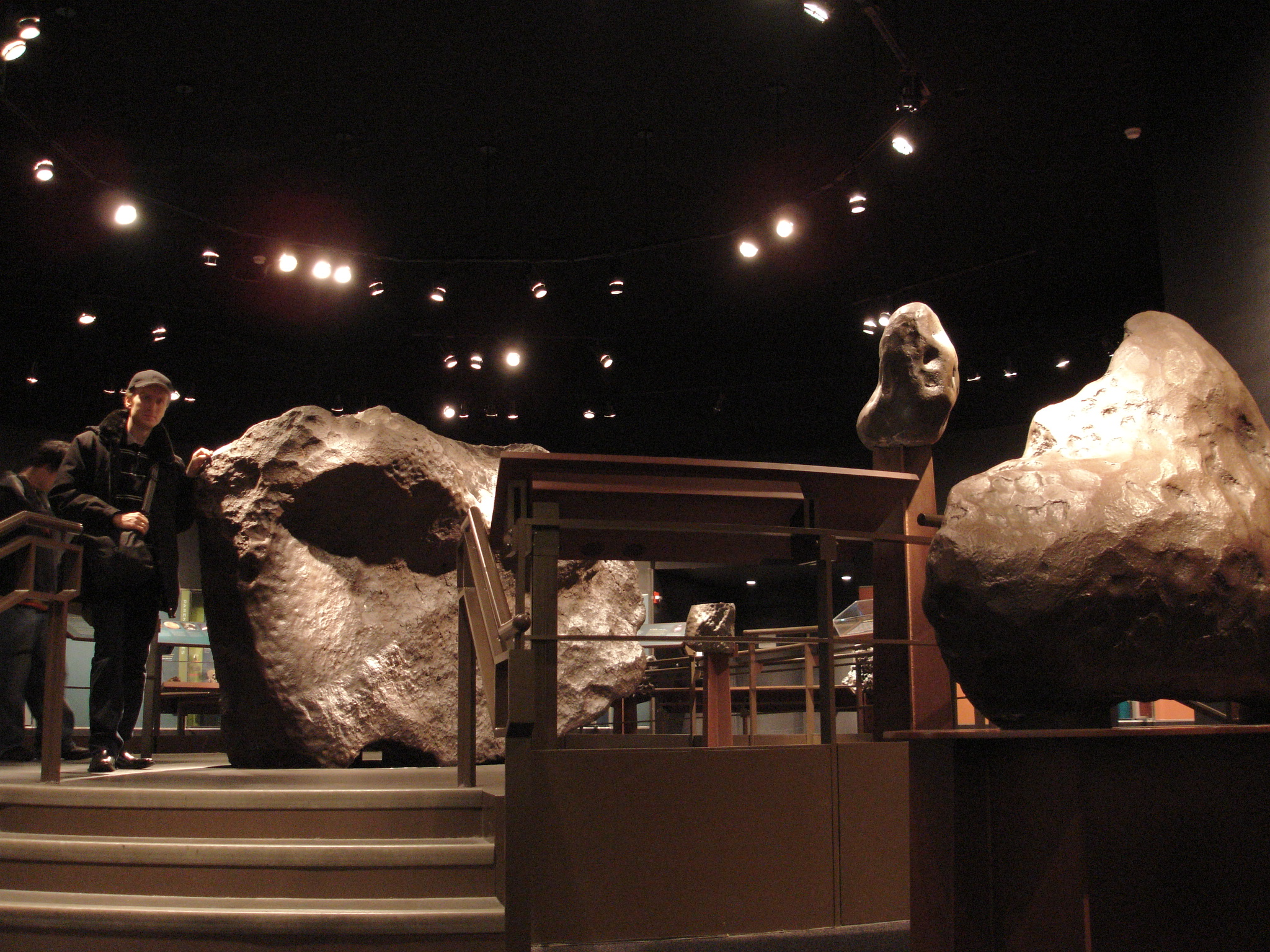 Cape York meteorite. This 30 tons iron meteorite crashed into Greenland 10,000 years ago, now stands proudly in American Museum of Natural History.